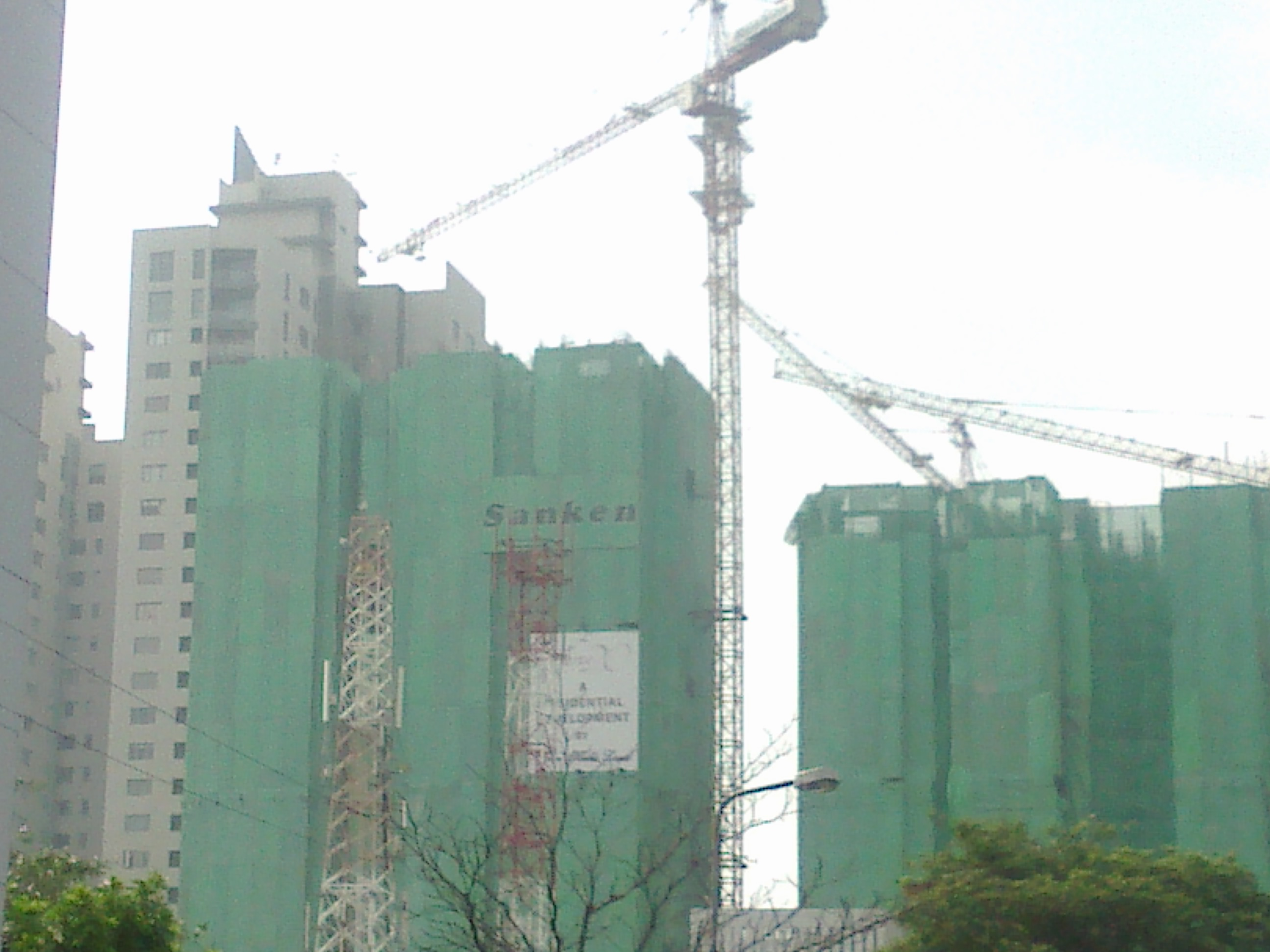 Onthree20 U/C